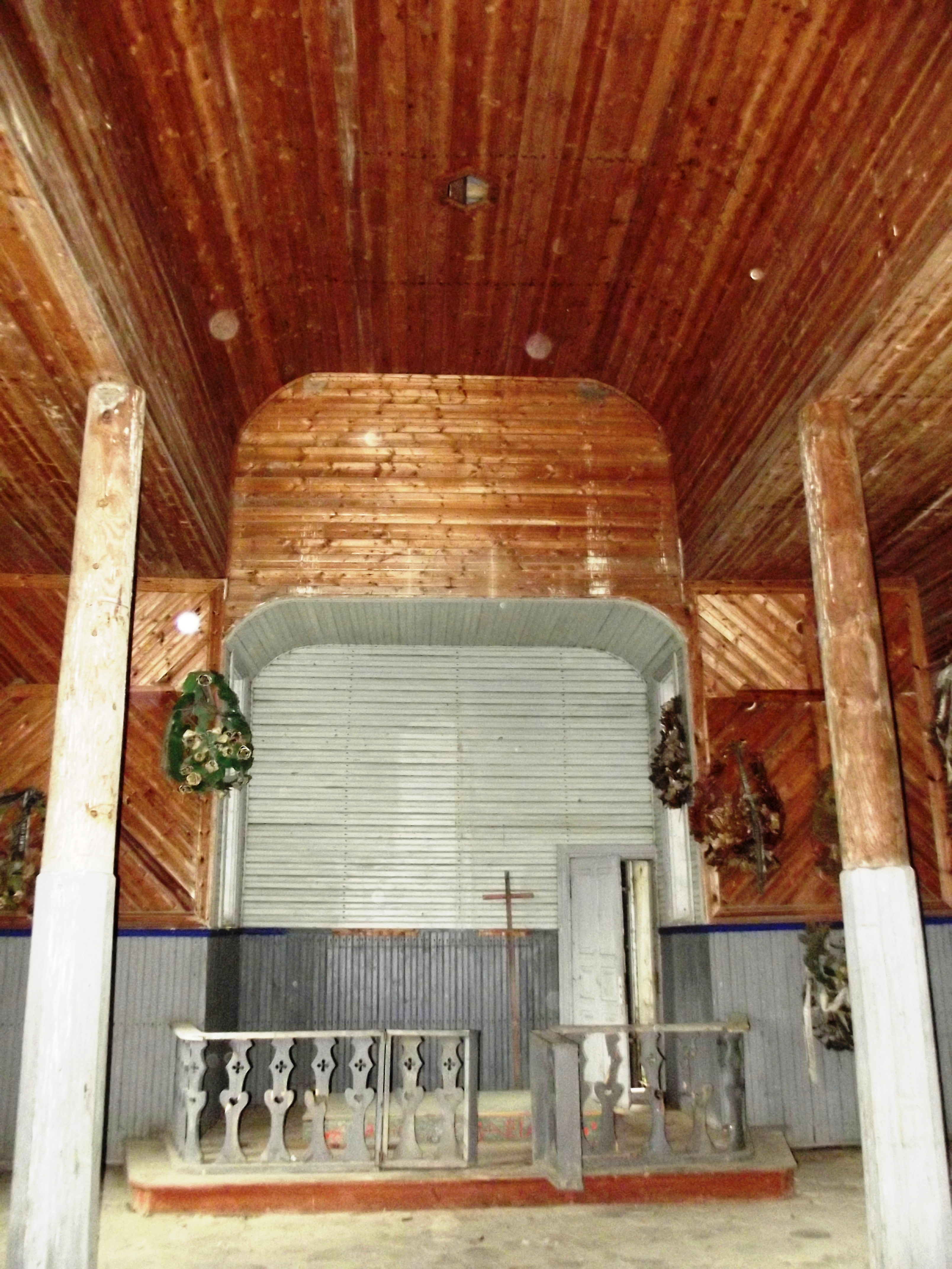 Chapel interior in Parausiai, Vilkaviškis District, Lithuania